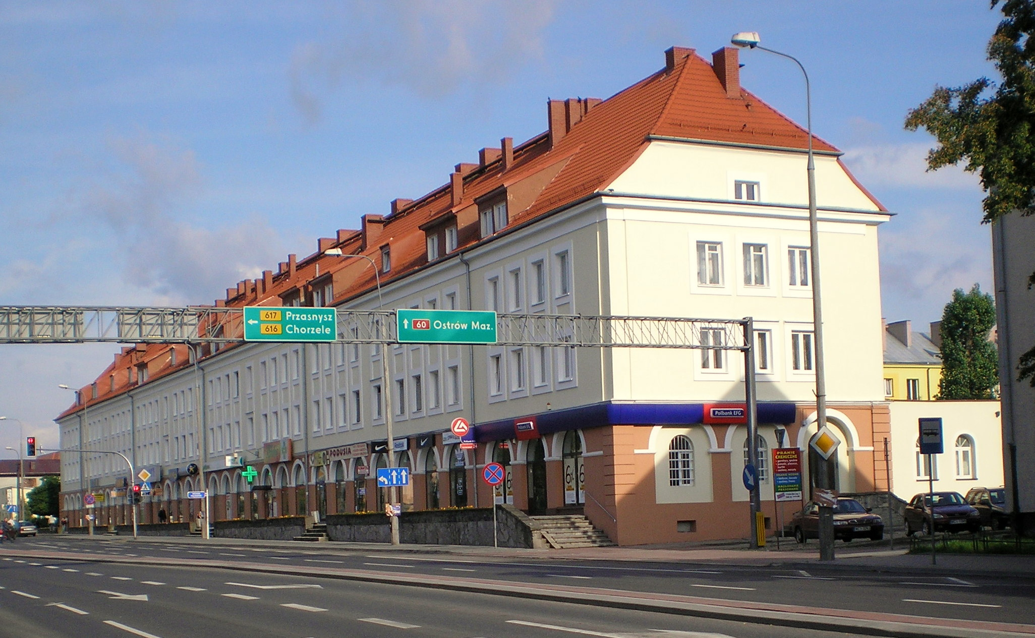 Pultuska's Hall in Ciechanów